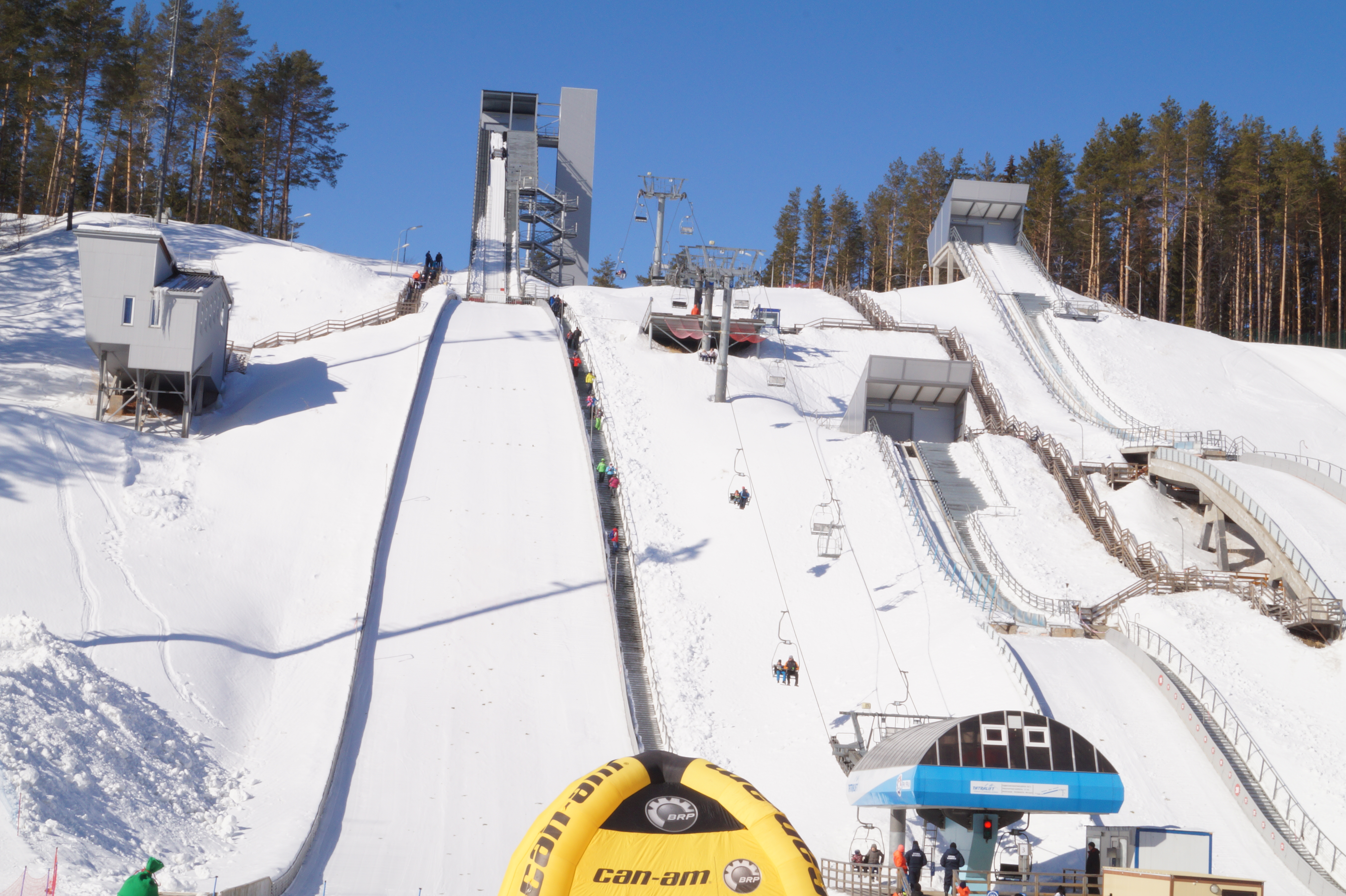 Snezhinka Ski Center (65, 20 and 40 hills)